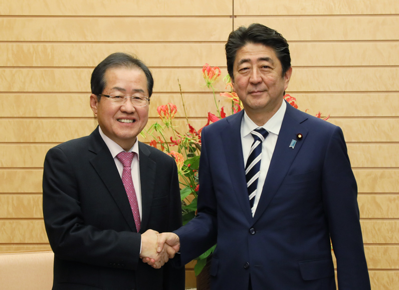 Shinzō Abe and Hong Jun-pyo at the Japanese Prime Minister's Office on December 14, 2017.